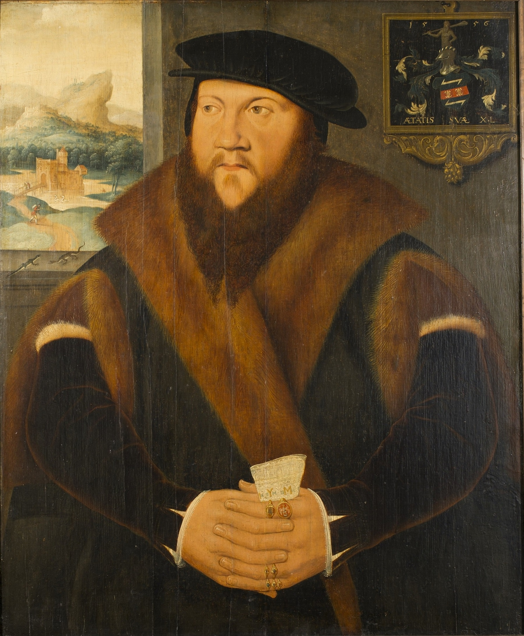 portrait of a gentleman, charged with a coat-of-arms, recently identified as Christoph Tiedemann, Canon of Lübeck